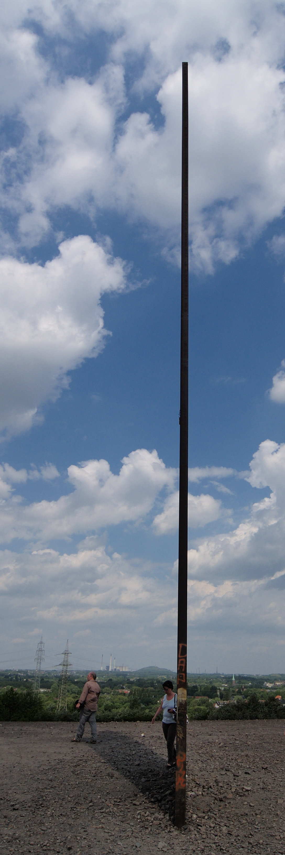 A monument, made of steel by Richard Serra for the Ruhr Area on top of the Halde Schurenbach in Essen, Germany, narrow side